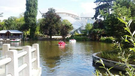 jardin d'acclimatation